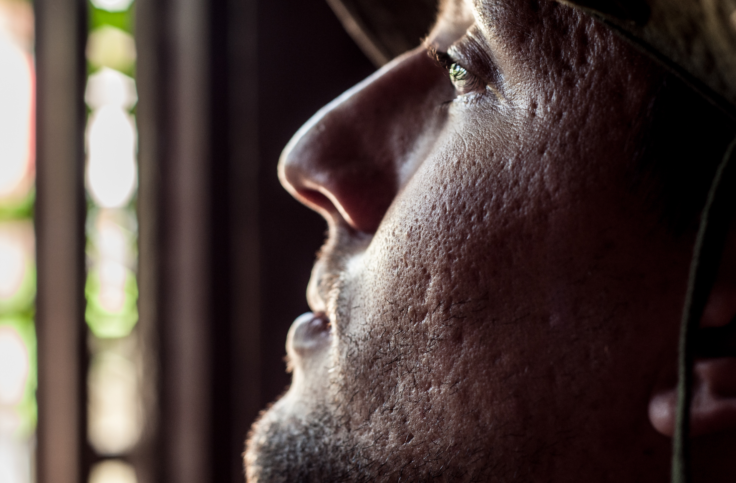 Human face, meditating